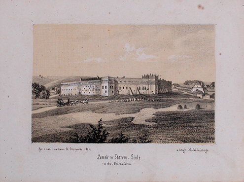 Lithography of Stare Selo castle in Ukraine by Bogusz Stenczynski, 1852.